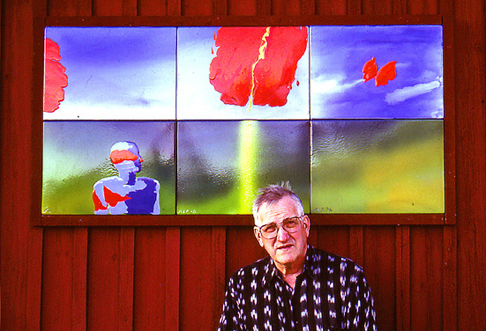 Alf Olsson